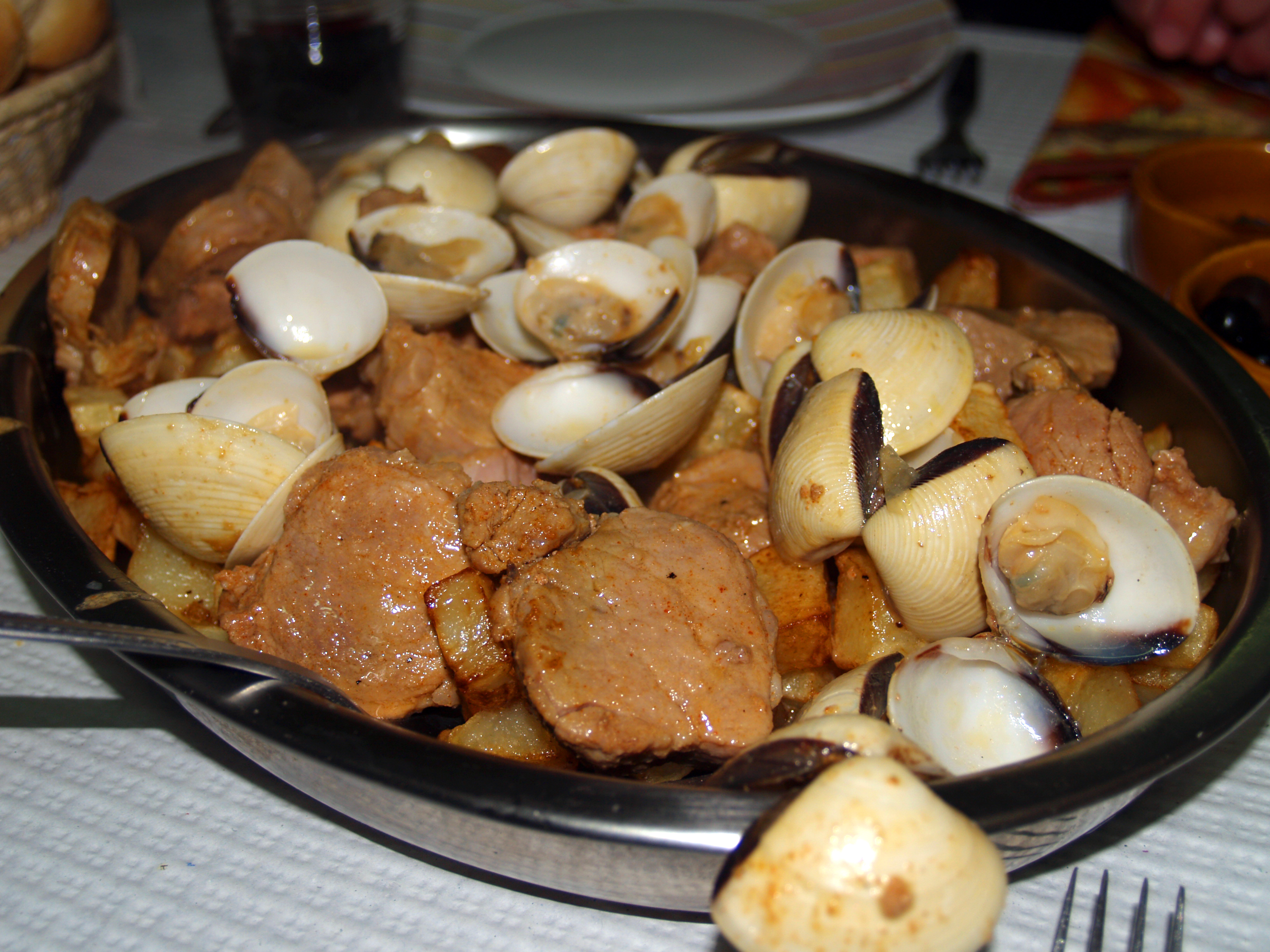 One of the most traditional and popular pork dishes of Portuguese cuisine. It is typical from the Alentejo region, in Portugal, hence the word Alentejana (from Alentejo) in its name. It is a combination of pork and clams, with potatoes and coriander.